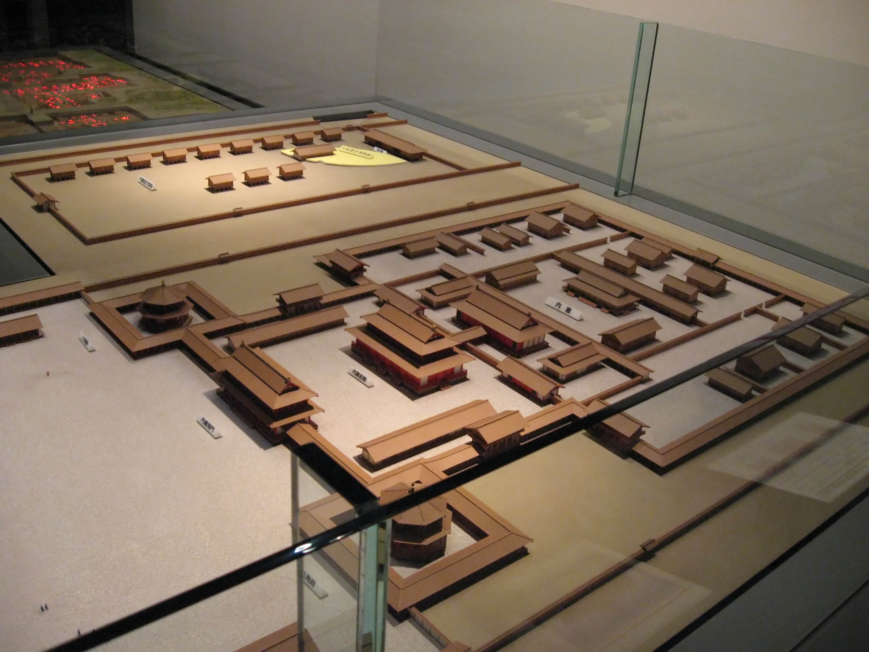 Scale model of preceding Naniwa palace